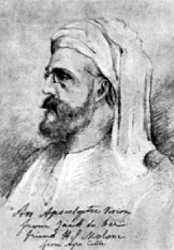 Henry Olcott (1877). Drawing by H. P. Blavatsky.